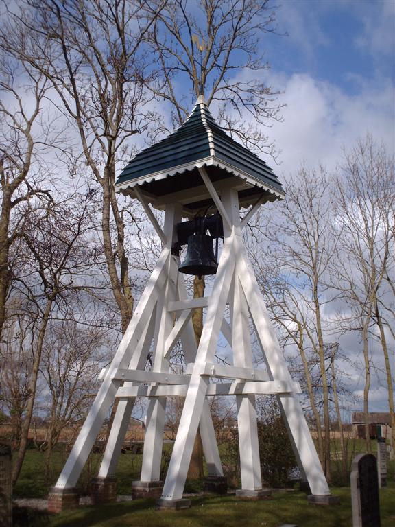 wooden bell tower in Akmarijp, Friesland, Netherlands